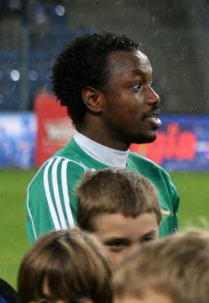 Ivory Coast-born Burkinabé football player Abdou Razack Traoré